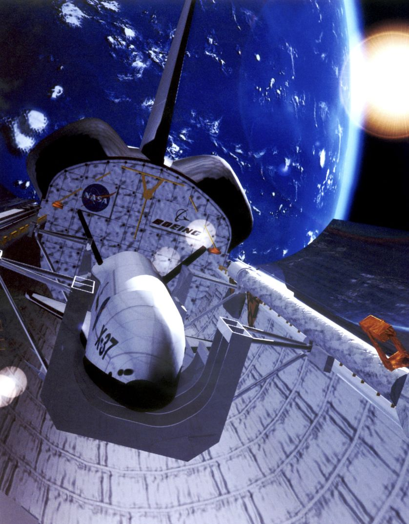 This artist's conception shows the X-37 Advanced Technology Demonstrator in the Shuttle Payload Bay. The X-37 lies on a pallet, with the Earth in the background and the Sun rising on the right. Rounded on the top and flat on the bottom, the X-37 design incorporates double-delta wings and two horizontal stabilizers, forming a V-shape.